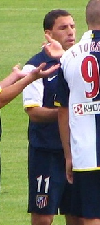 Maxi Rodríguez. Image cropped from original at flickr.